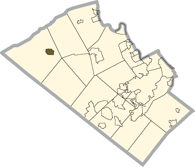 New Tripoli shaded on the Lehigh county map.